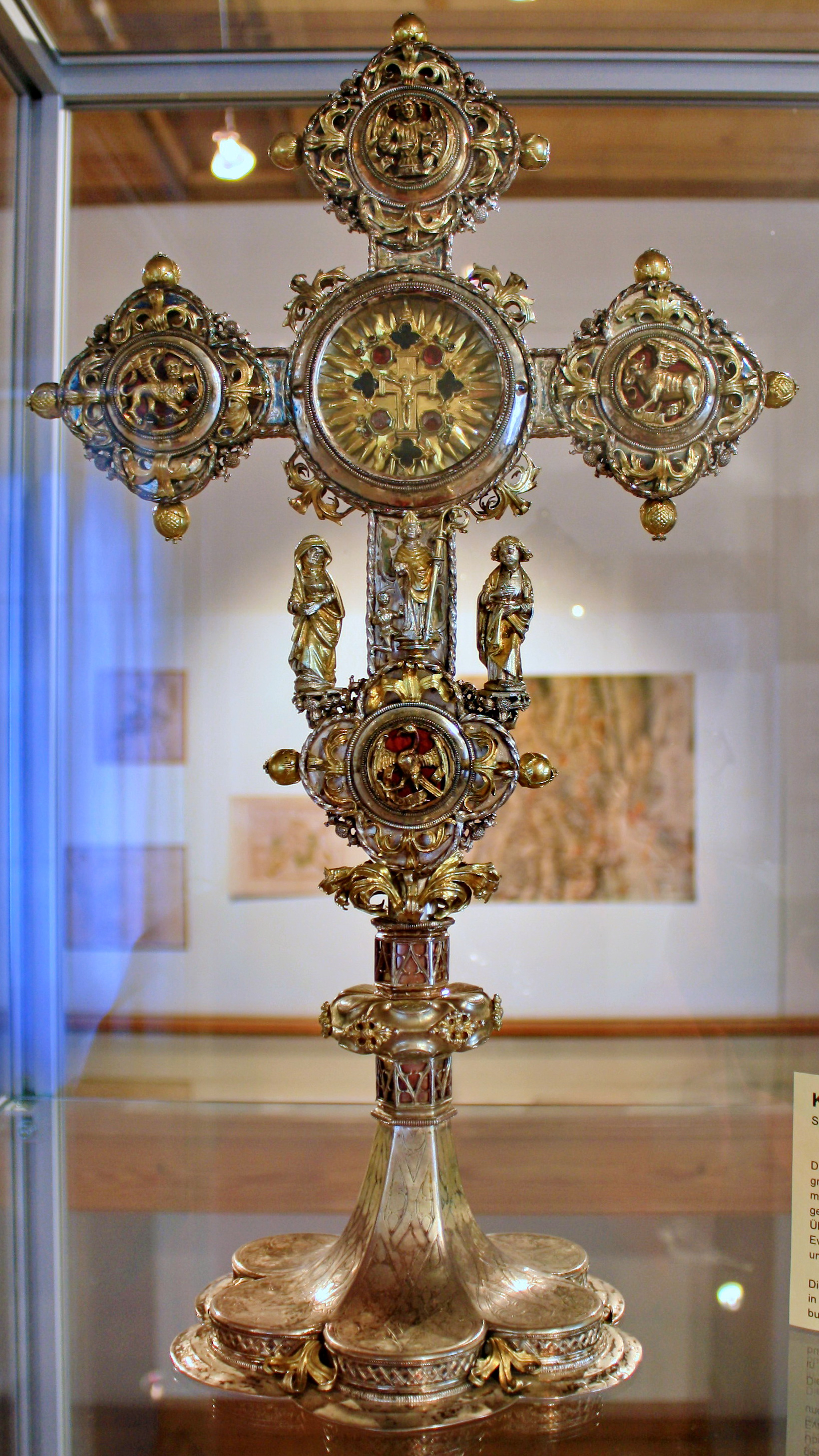 Rüti (ZH) : Treasury of the former Premonstratensian Abbey, Ortsmuseum (museum of local history) in the Amthaus Rüti (Bailiff's house).